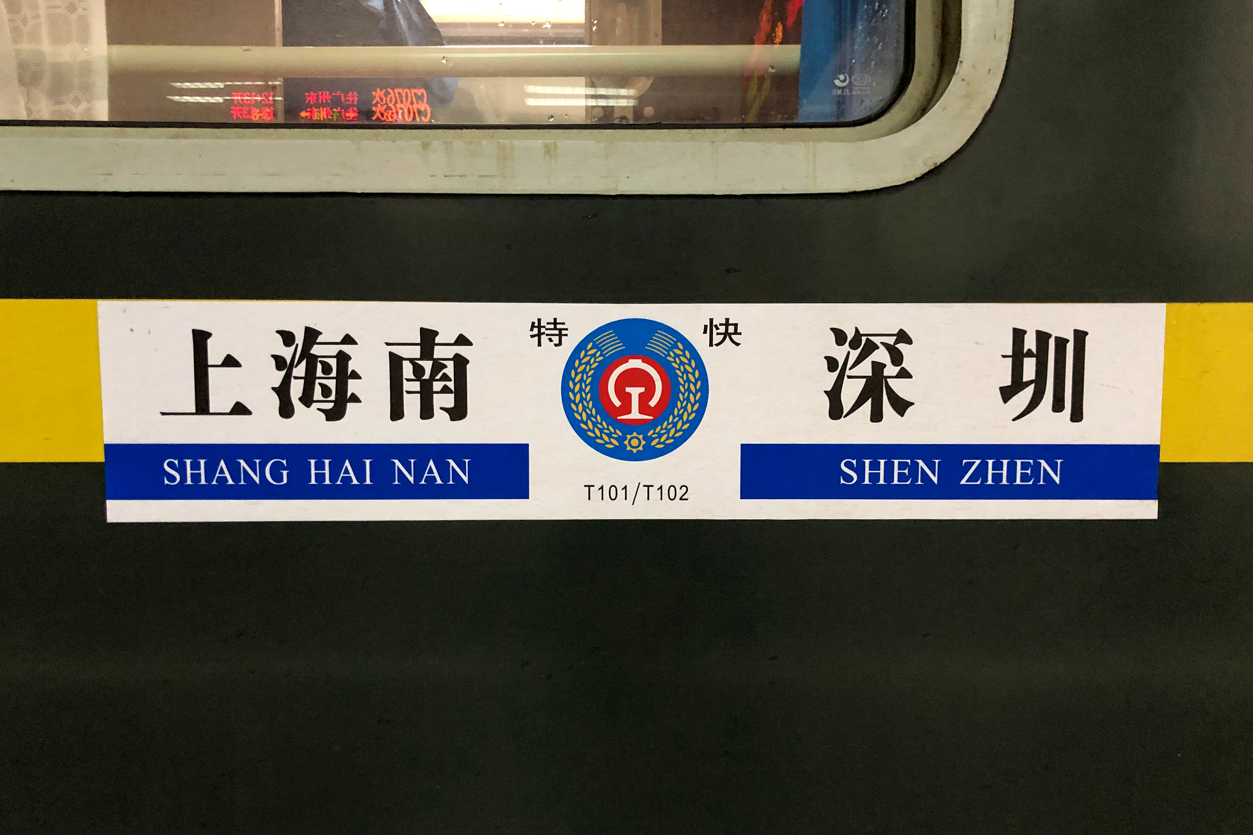 Taken at Platform 3.